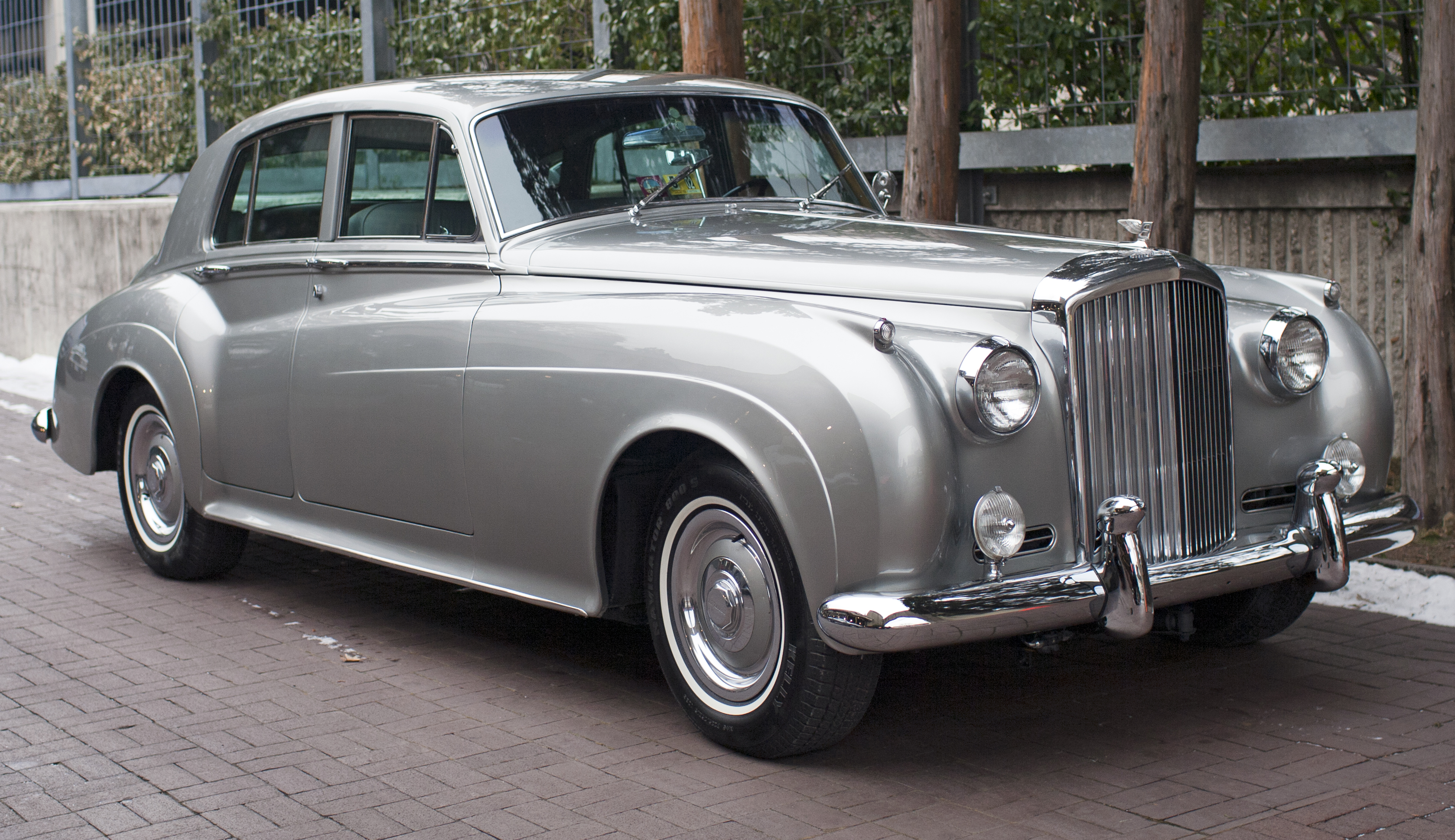 Front view of a 1959-1962 Bentley S2.